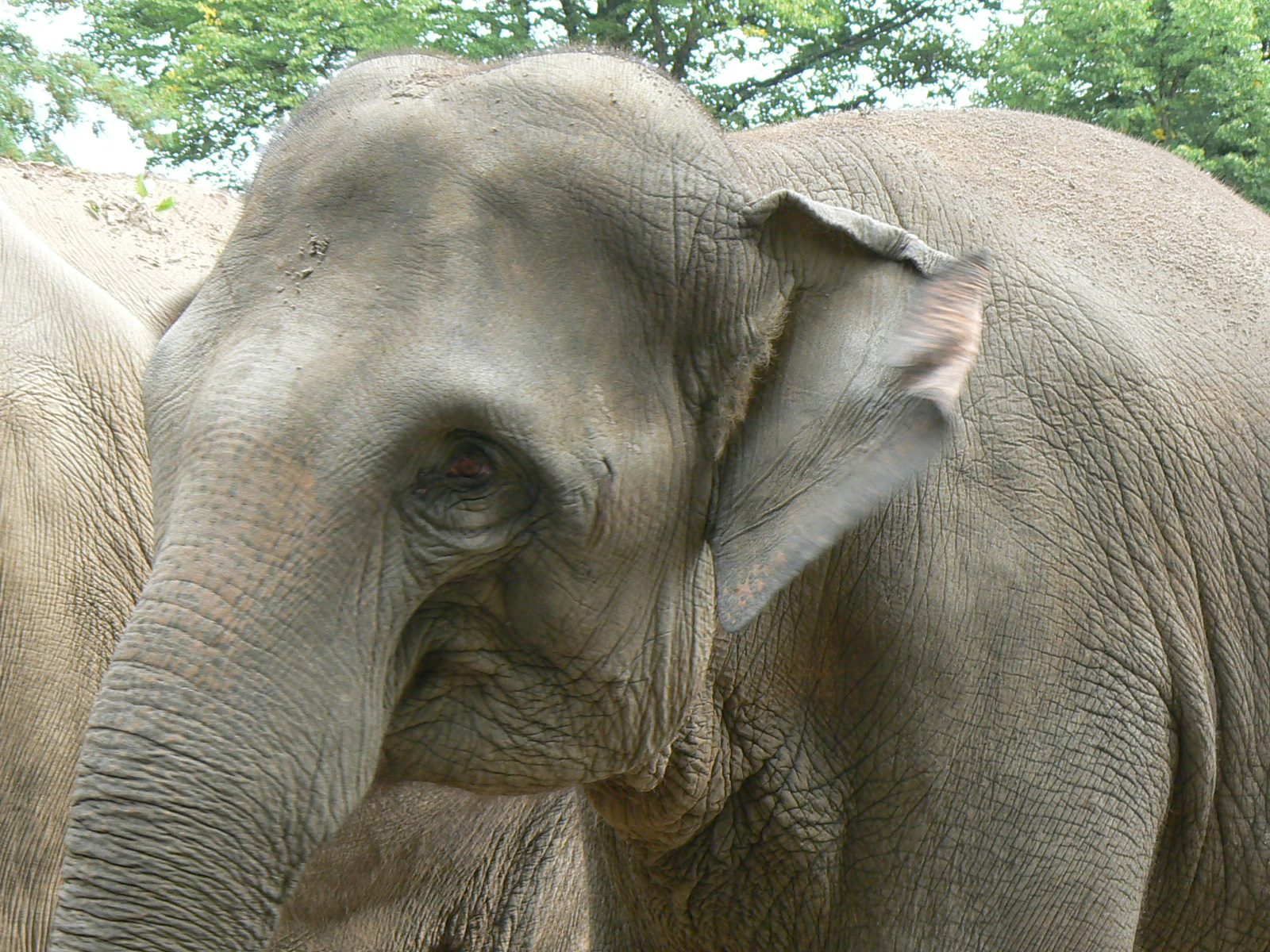 asian elephant on the zoo from hamburg "Elephas maximus"